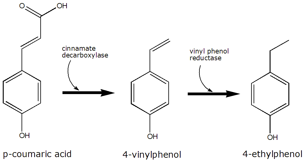 Created in ChemDraw Ultra